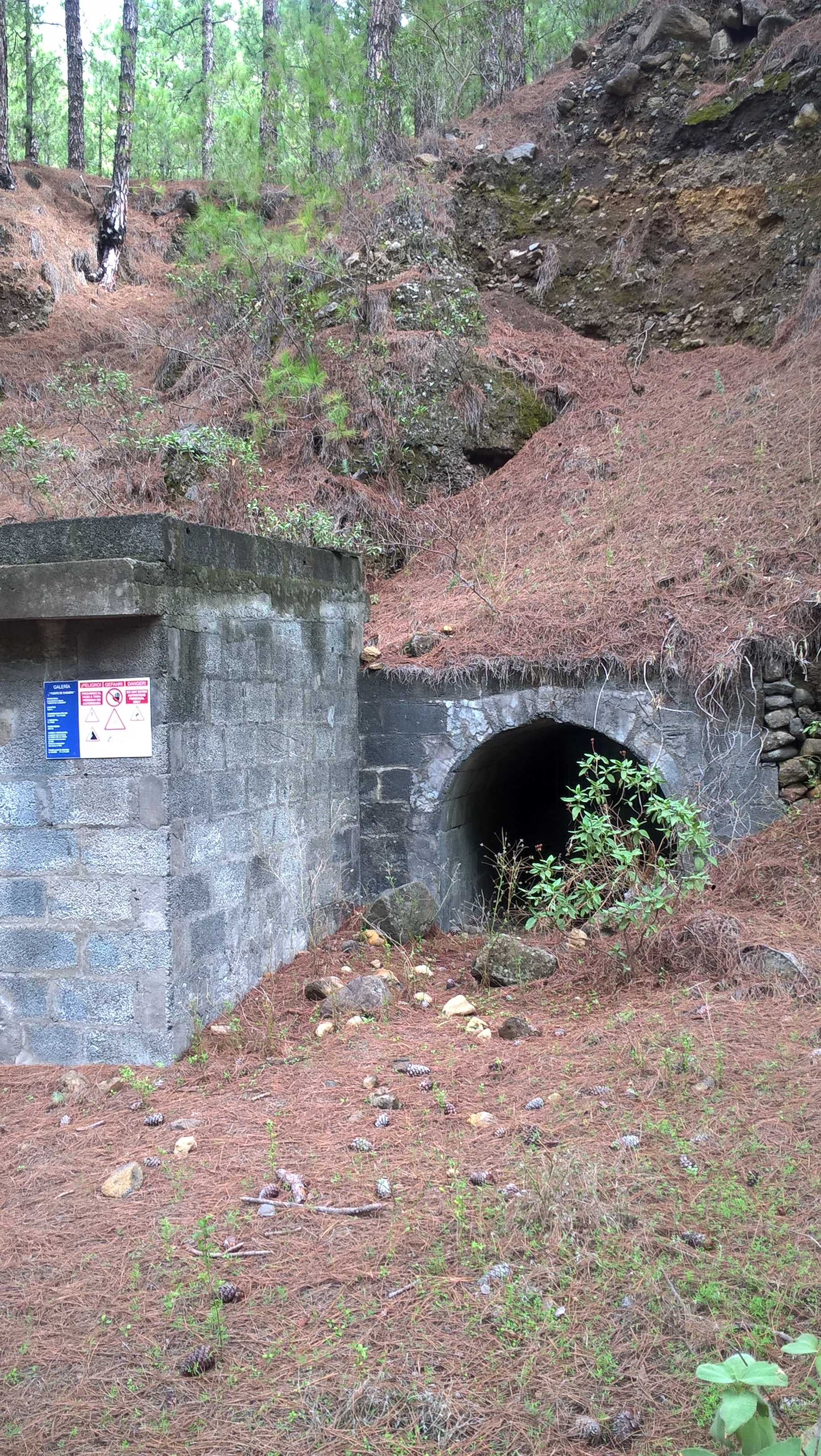 Galería Fuente de Caquero at the LP-302 in El Paso, La Palma